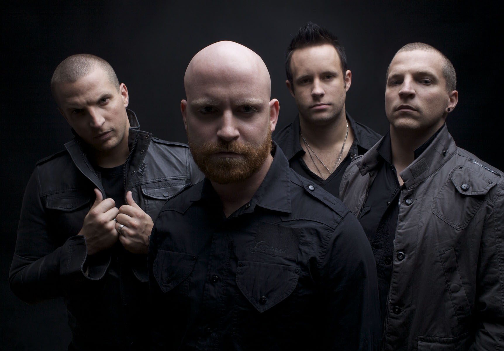 Red, American Christian rock group